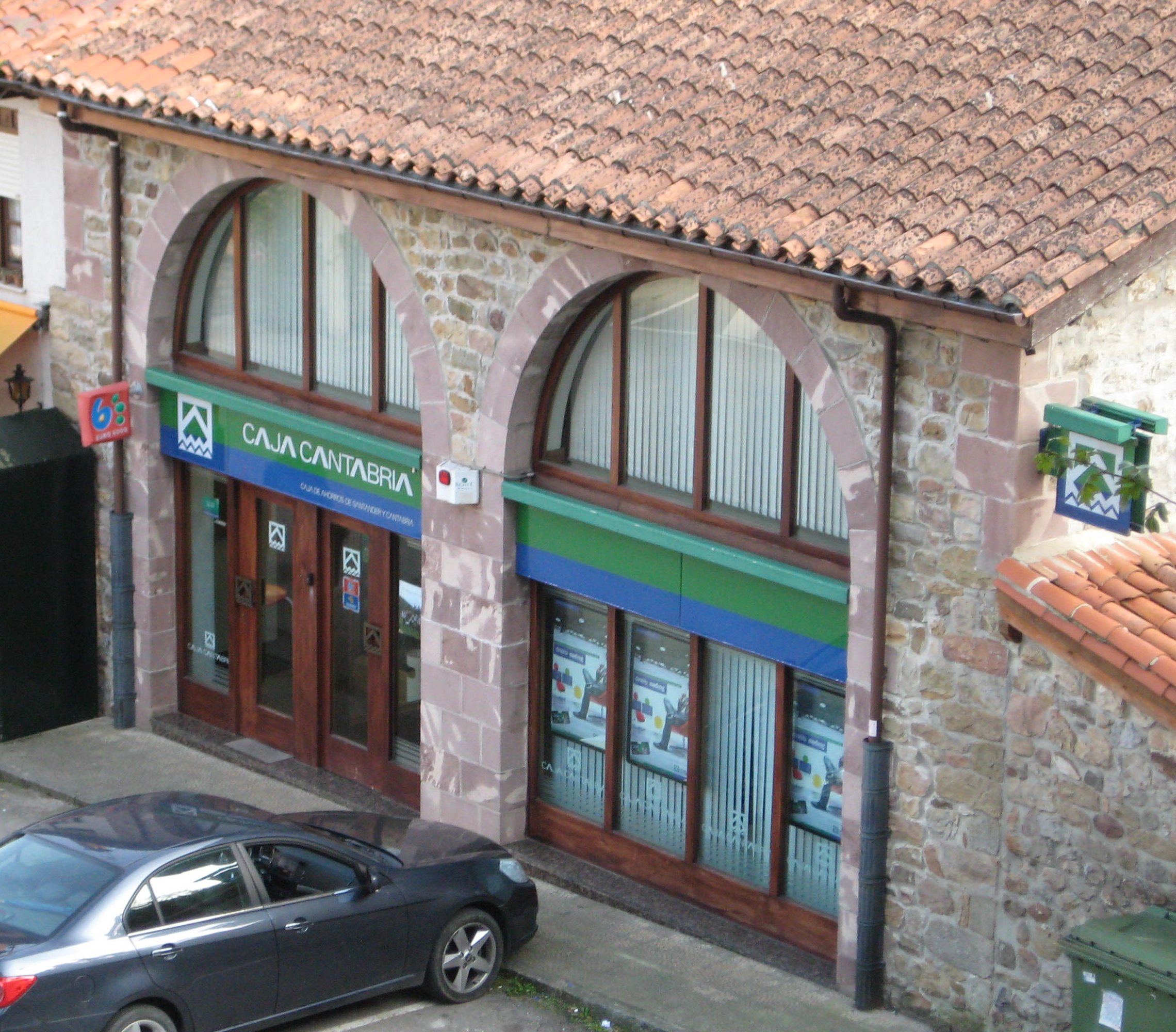 Branch of Caja Cantabria in Valle, Cabuérniga, Cantabria, Spain.